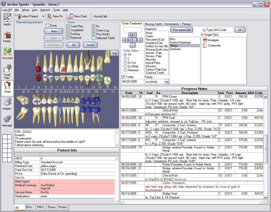 Dr. Jordan Sparks, fair use Removed from the following pages: Open dental --OrphanBot 07:20, 11 July 2007 (UTC)